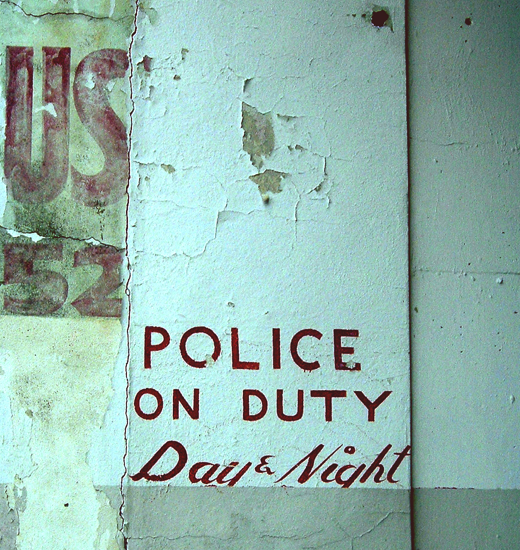 New Orleans: Wall will old painted lettering "POLICE ON DUTY Day & Night".